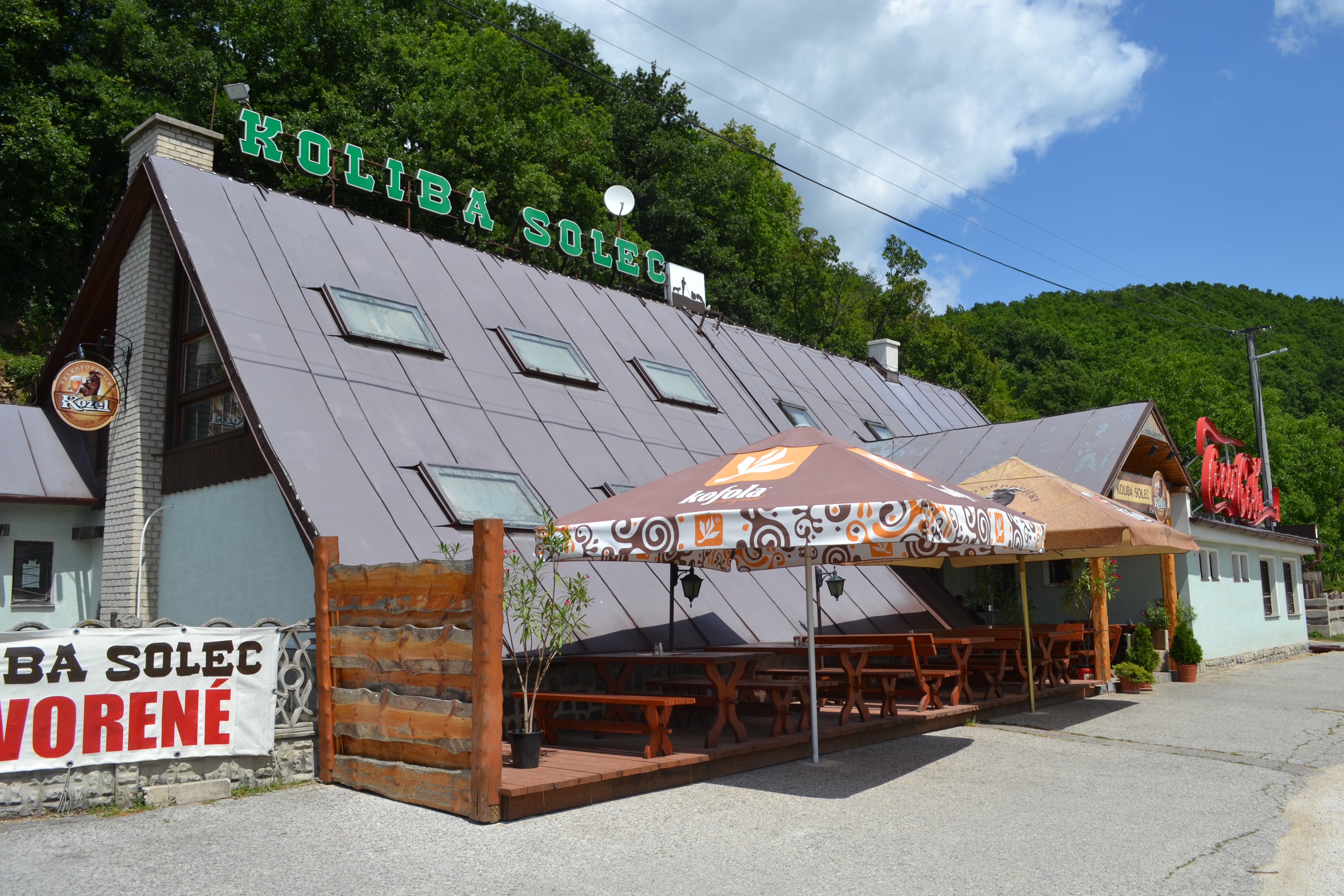 Solec chalet in NitricaSlovenčina: Koliba Solec v Nitrici